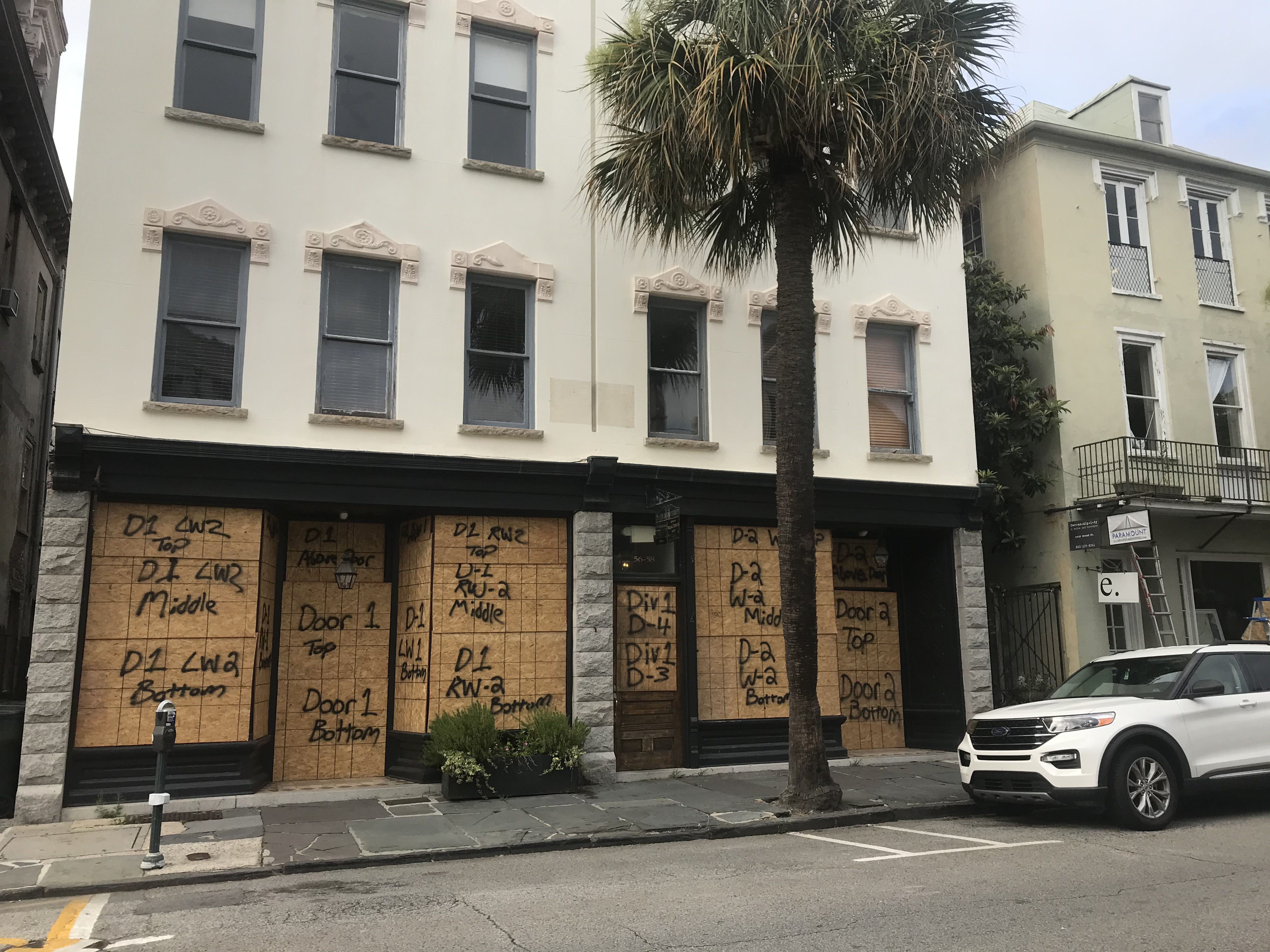 A business in Charleston, South Carolina, U.S. with wood panelling after protests over the death George Floyd escalated the previous night